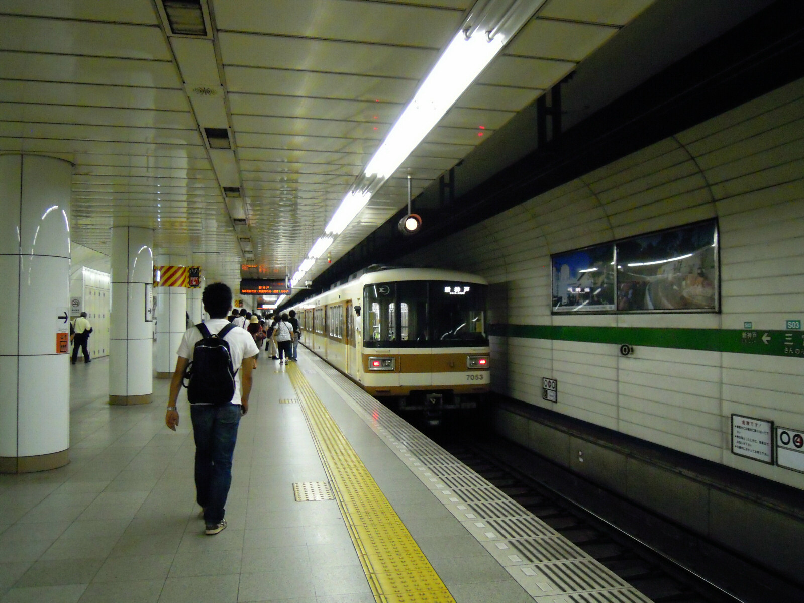 Seishin-Yamate Line Sannomiya station platform